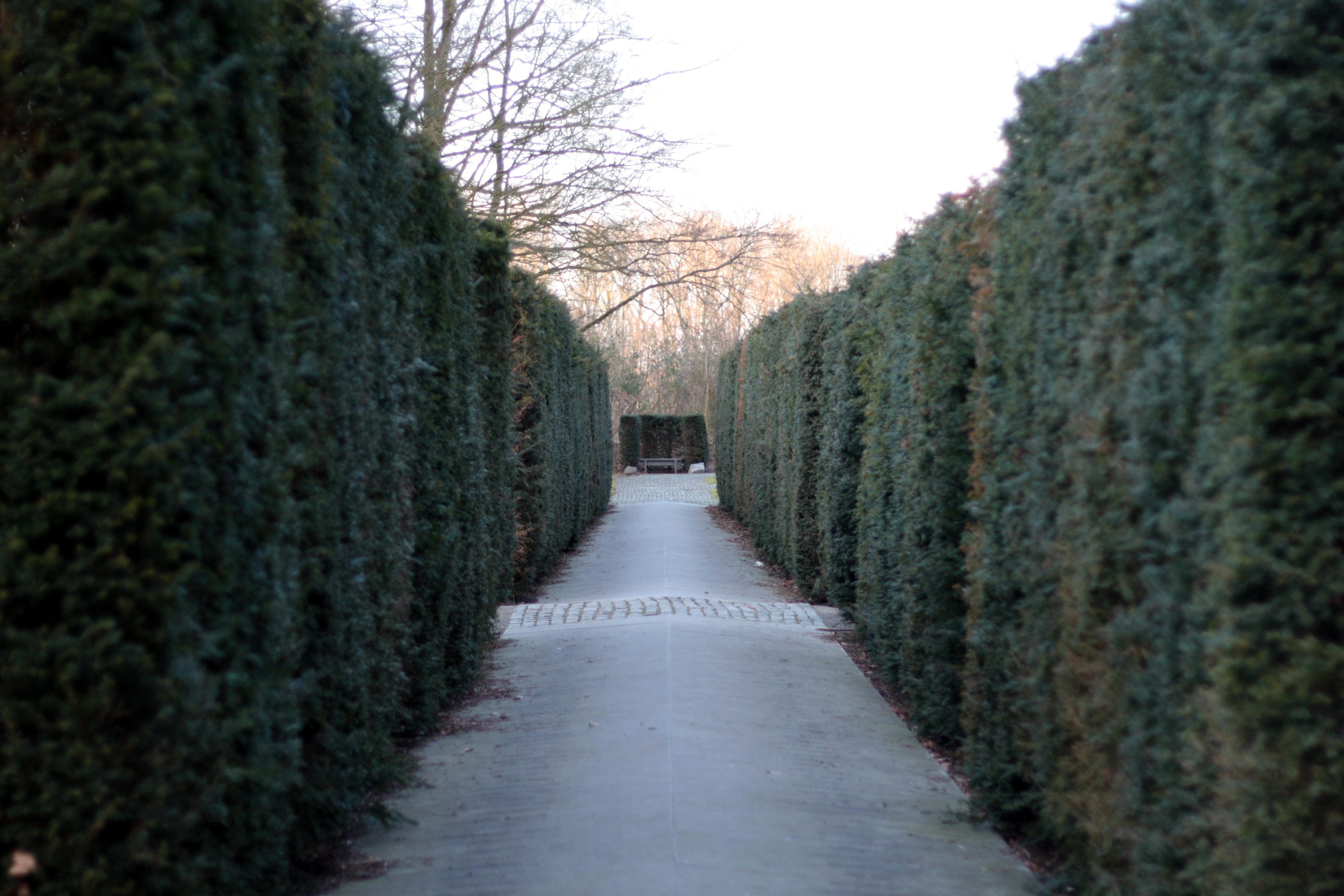 National Dachau Monument in Amsterdam.